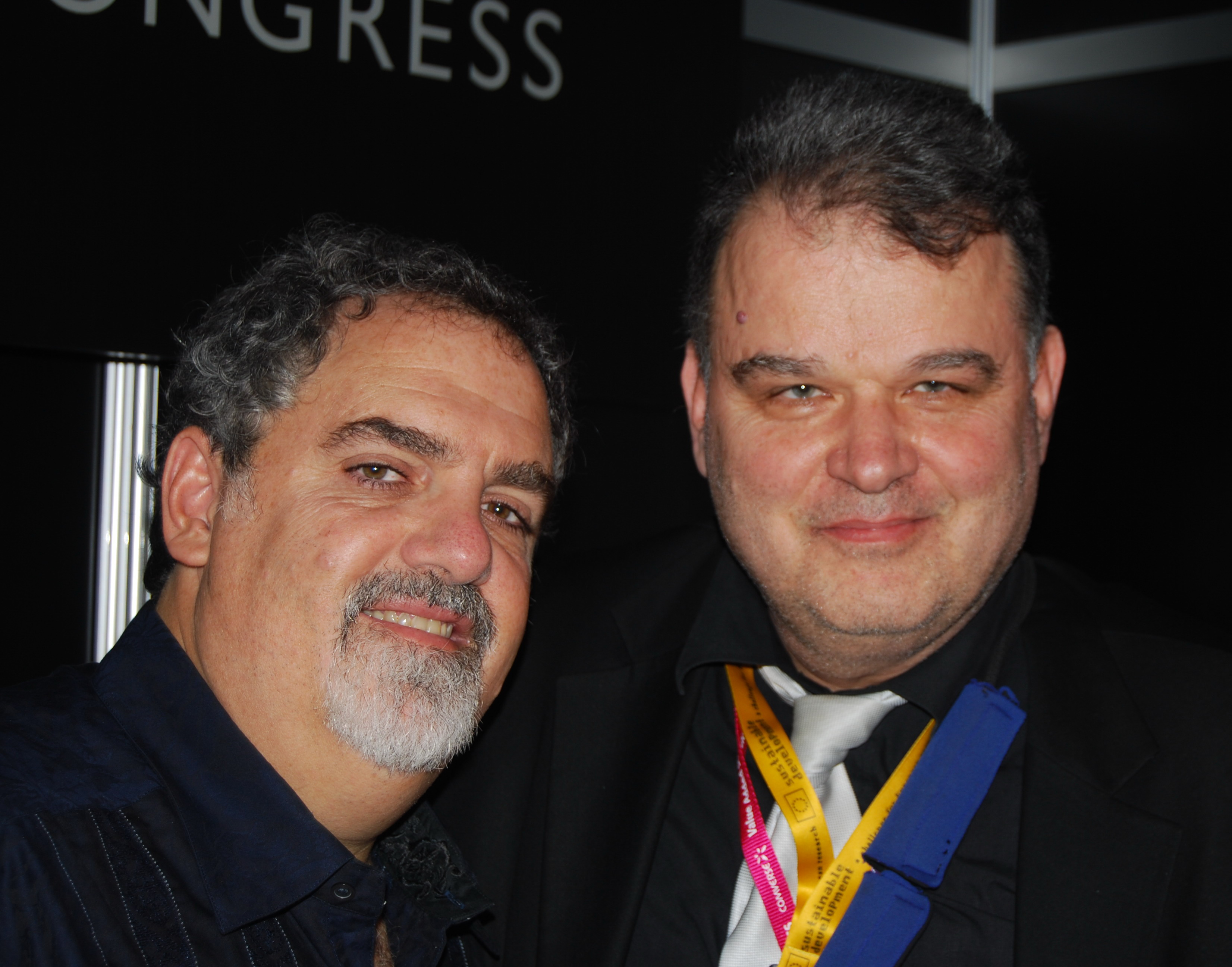 Jon Landau, the famous American producer of the box-office successes “Titanic” and “Avatar” a.o., together with Ioan Bacivarov (right), Romanian university Professor, scientific researcher and journalist (Editor-in-Chief of "Quality Assurance" and "Calitatea", a.o.) during the Mobile World Congress, Barcelona, 2010. In 2009, Jon Landau and James Cameron produced the science fiction blockbuster, Avatar, which has since become the highest-grossing film of all time, surpassing Titanic, which had previously held that position. Avatar earned Landau his second Academy Award nomination.